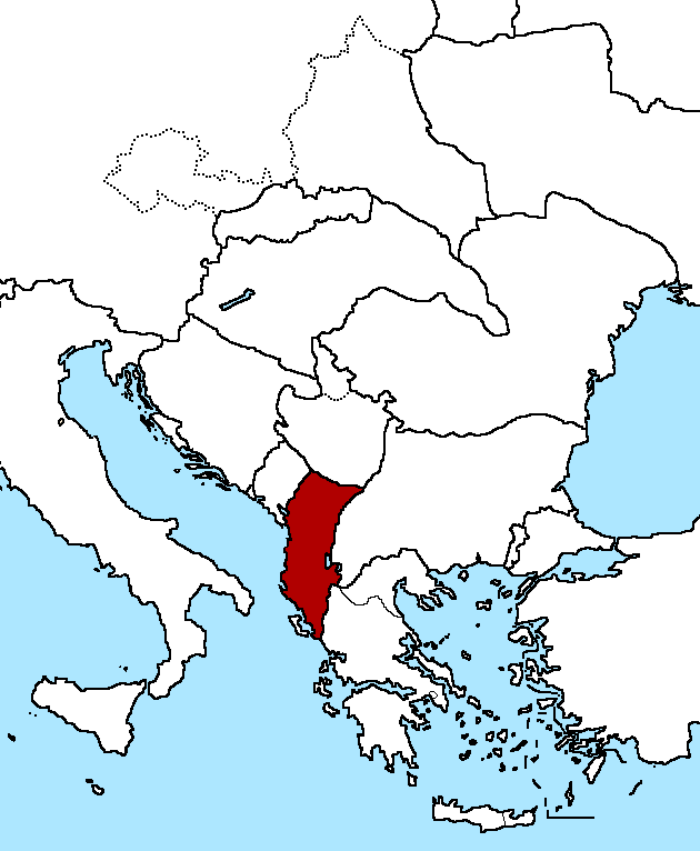 Location map, Albania, 1942